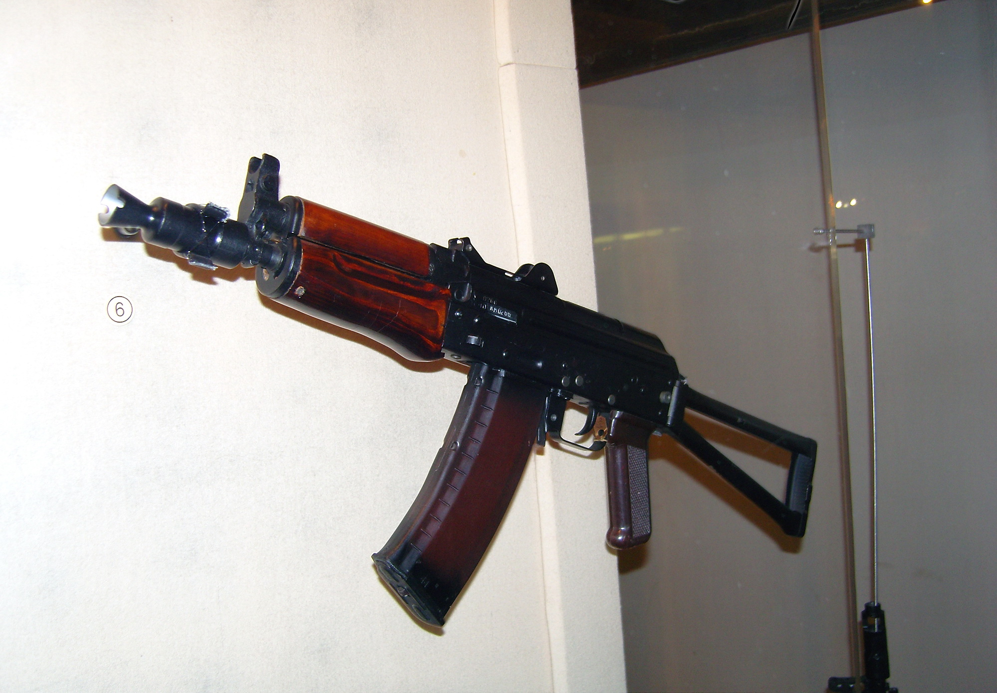 AKS-74U